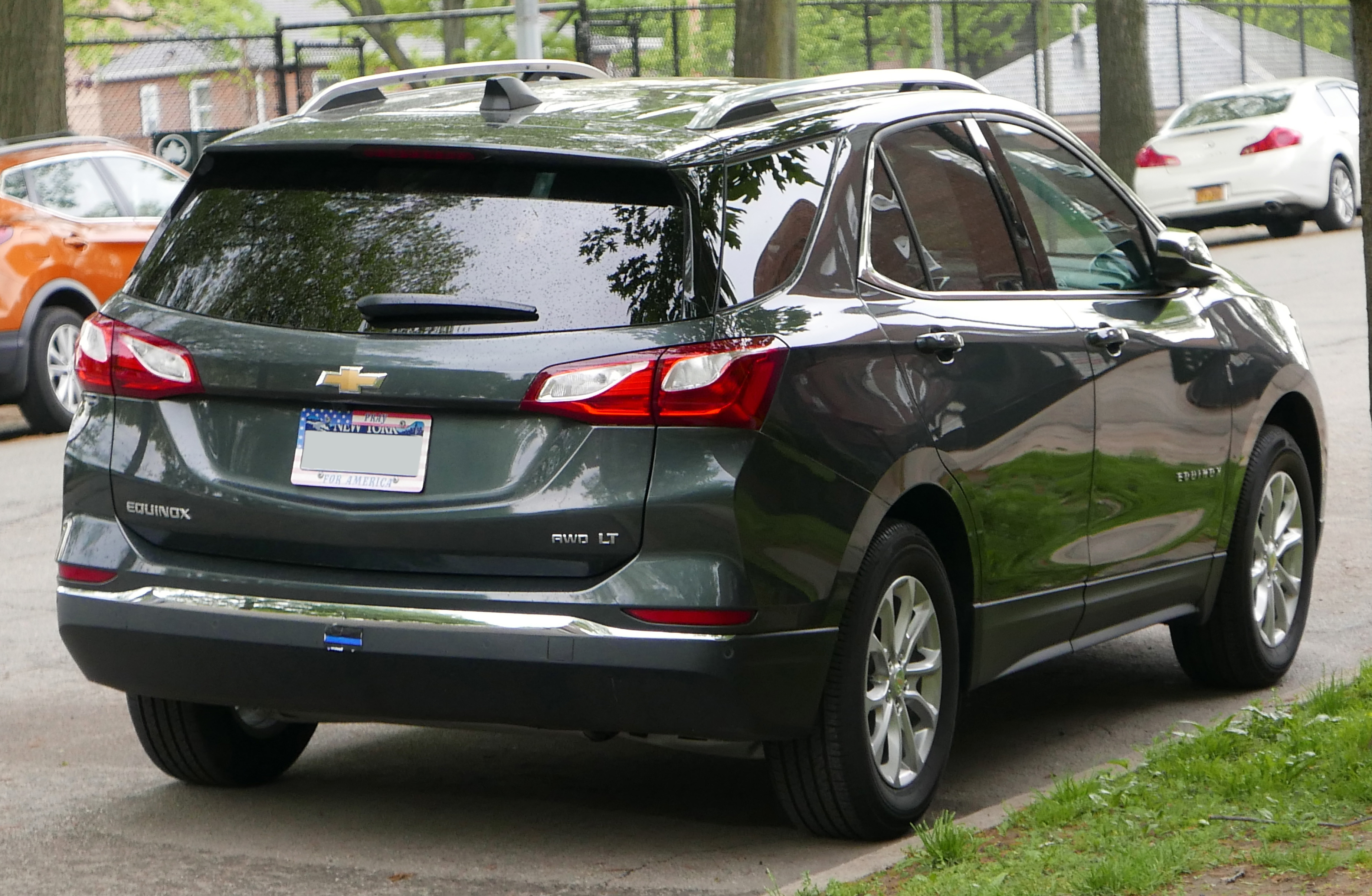 A 2017 Chevrolet Equinox photographed in Queens, New York City, USA